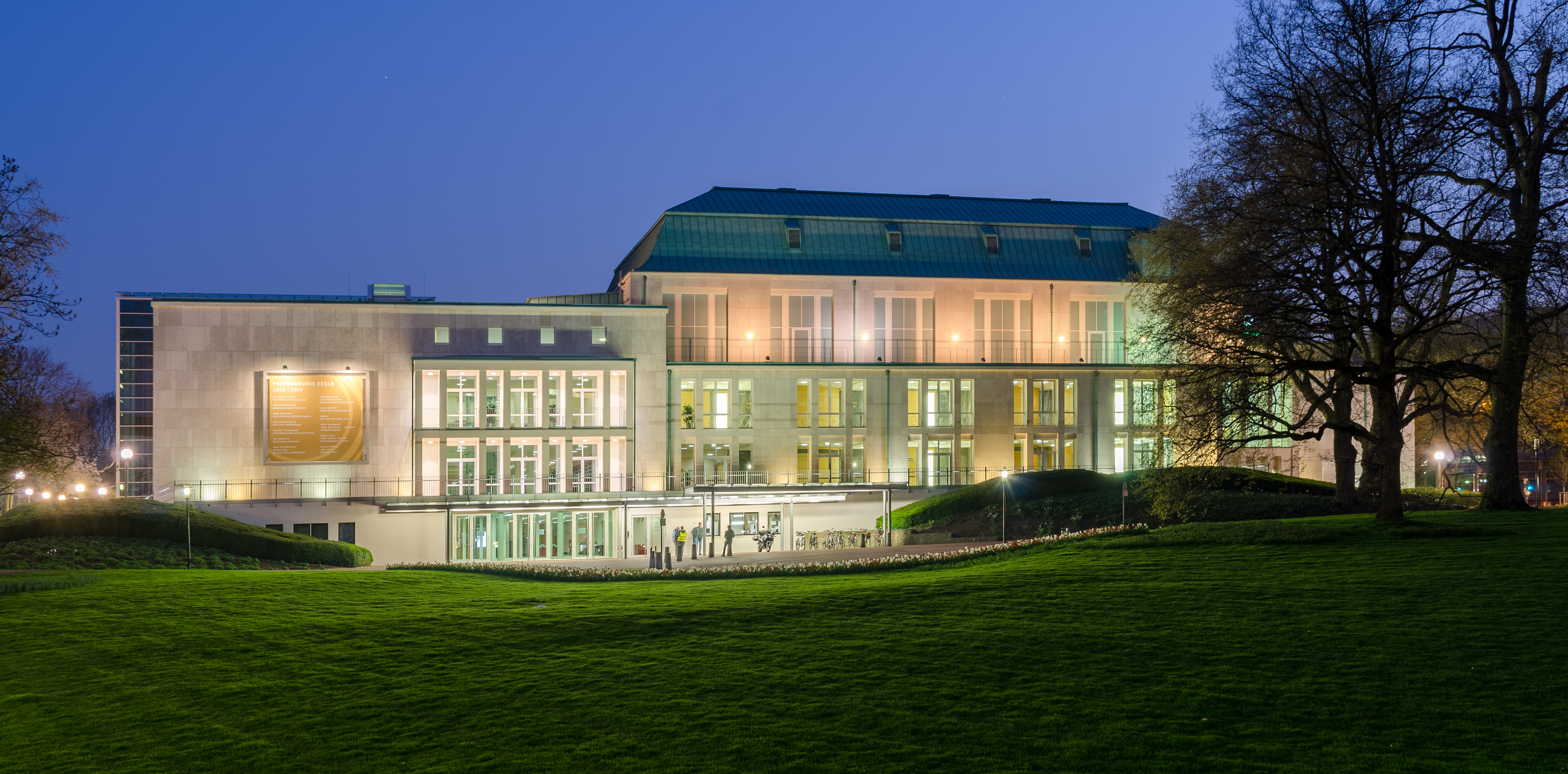 Essen (North Rhine-Westphalia, Germany) – district Südviertel – Saalbau, used as Essen Philharmonic Hall today, during the blue hour – north facade